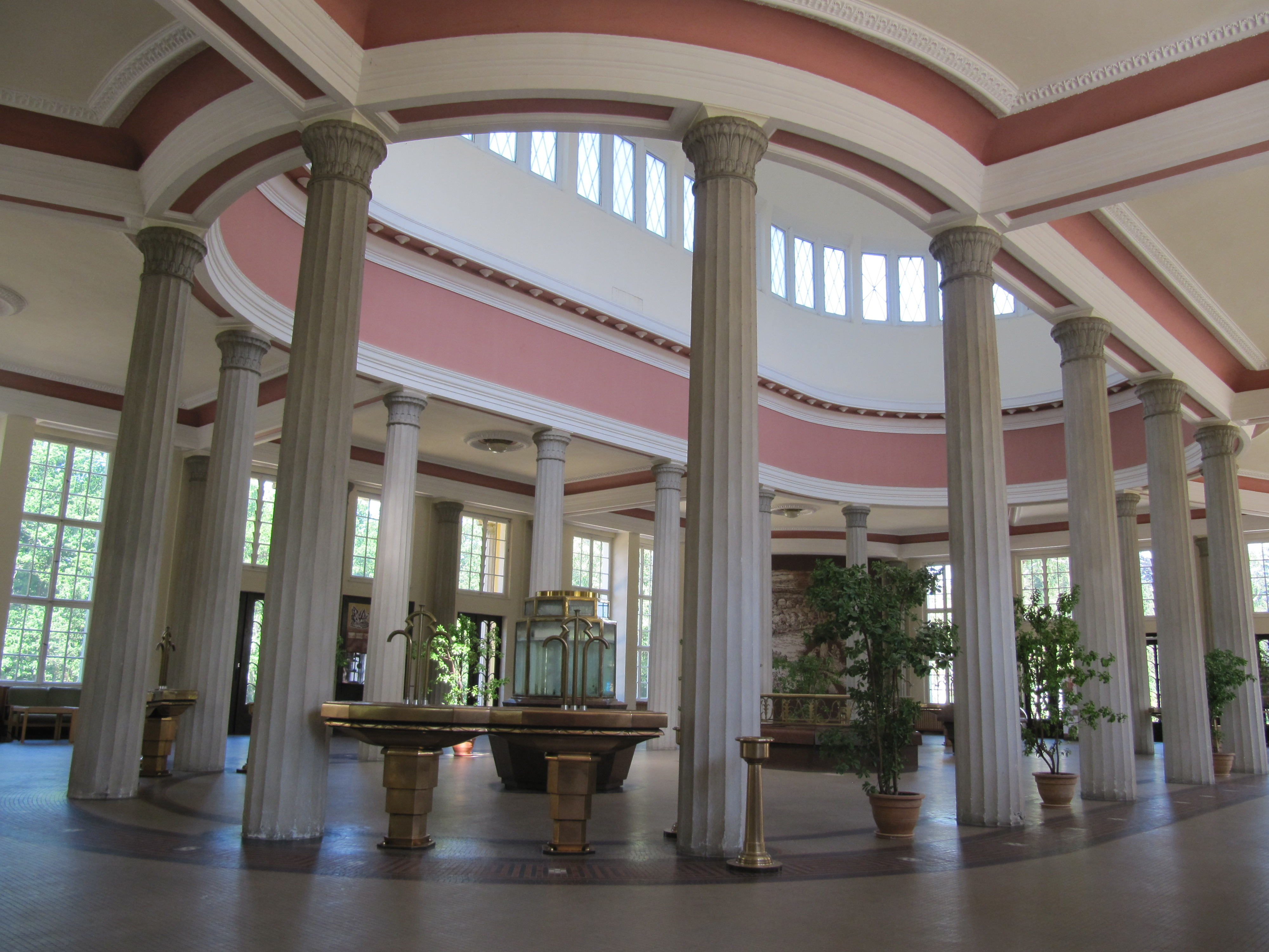 Františkovy Lázně, Cheb District, Czech Republic.